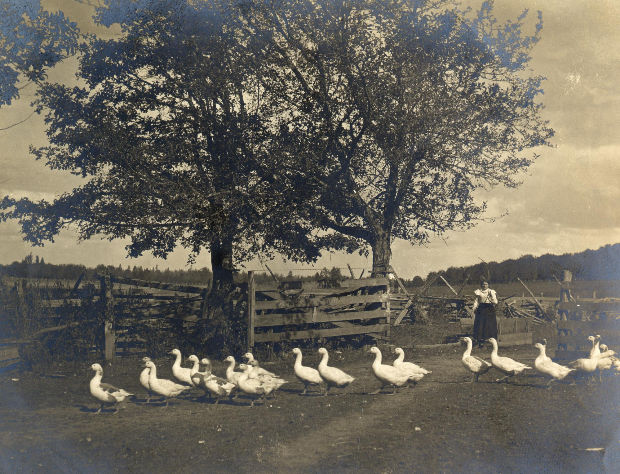 Original Collection: E. E. Wilson Photographic Collection Item Number: P101:90 You can find this image by searching for the item number by clicking here. Want more? You can find more digital resources online. We're happy for you to share this digital image within the spirit of The Commons; however, certain restrictions on high quality reproductions of the original physical version may apply. To read more about what “no known restrictions” means, please visit the Special Collections & Archives website, or contact staff at the OSU Special Collections & Archives Research Center for details.